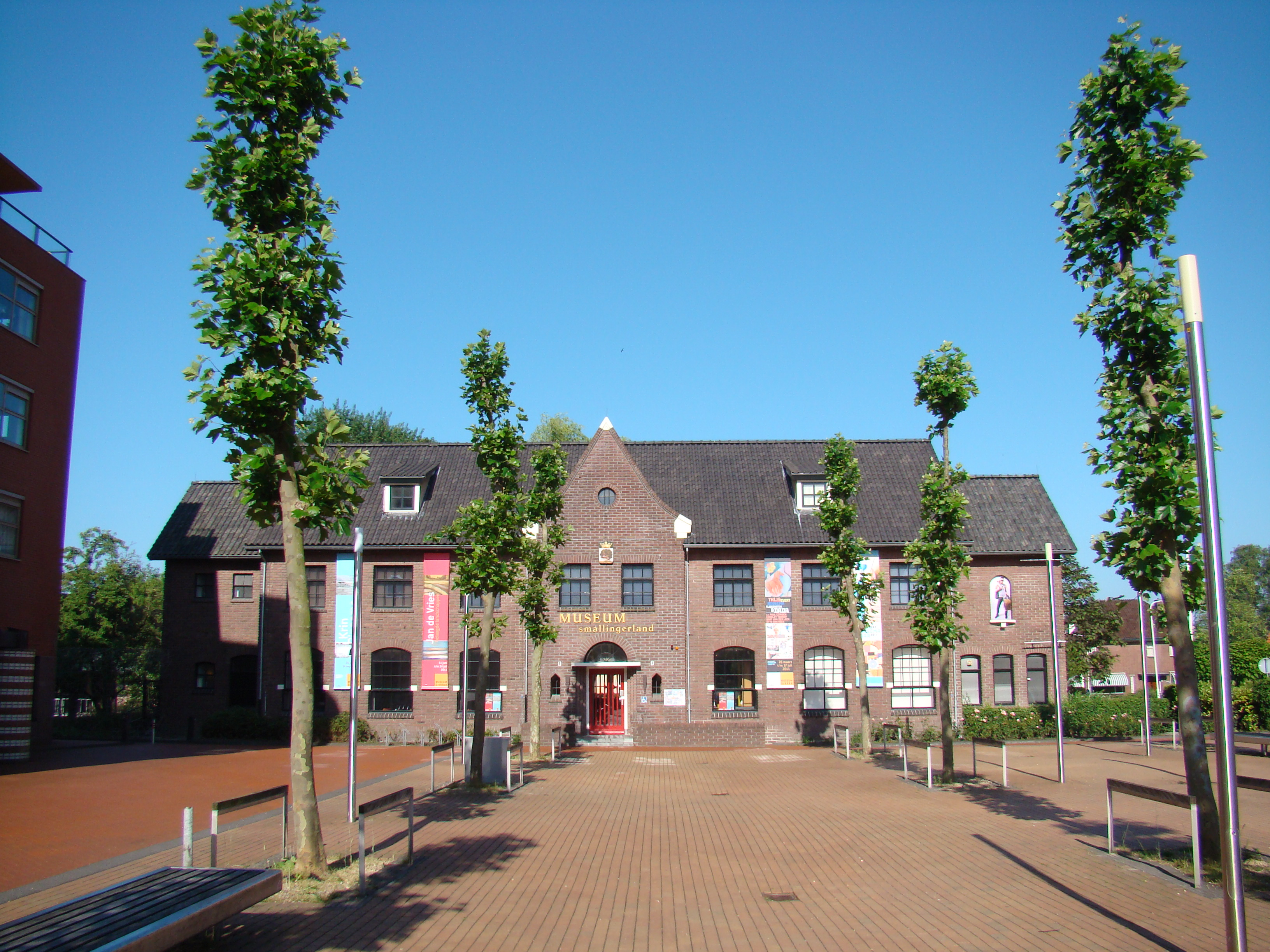 Impressions of Drachten (Netherlands)